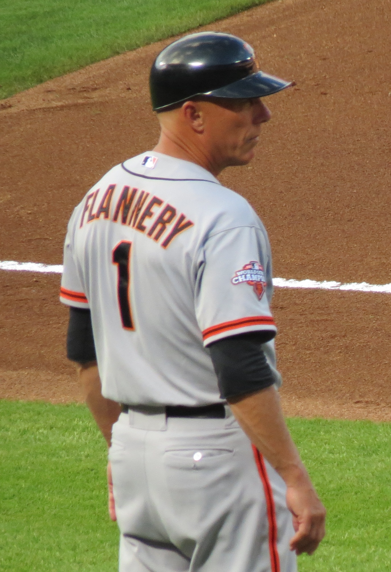 San Francisco Giants coach Tim Flannery – San Francisco Giants at Atlanta Braves, June 14, 2013.